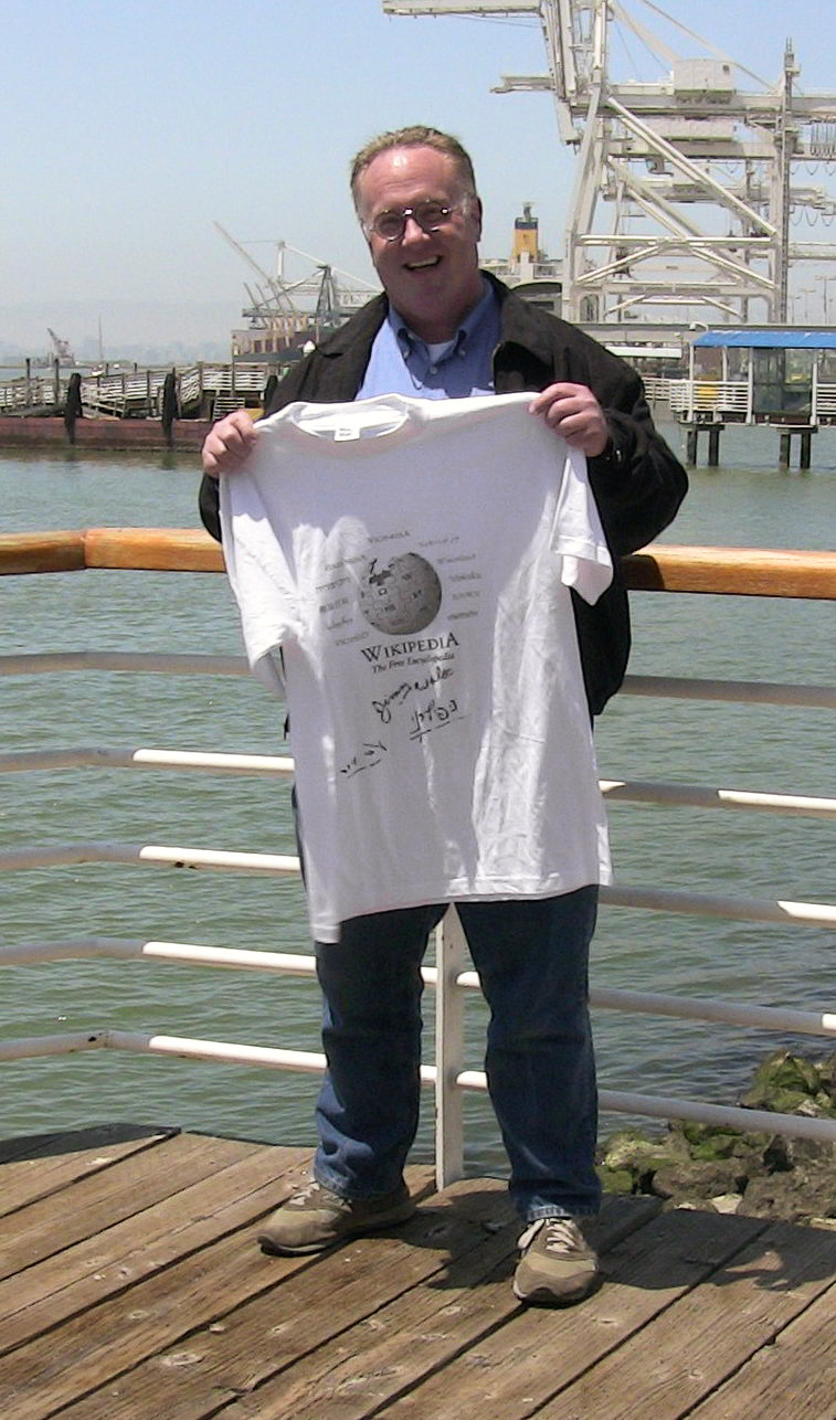 Mike Godwin and the "Free travel shirt" at Oakland harbor